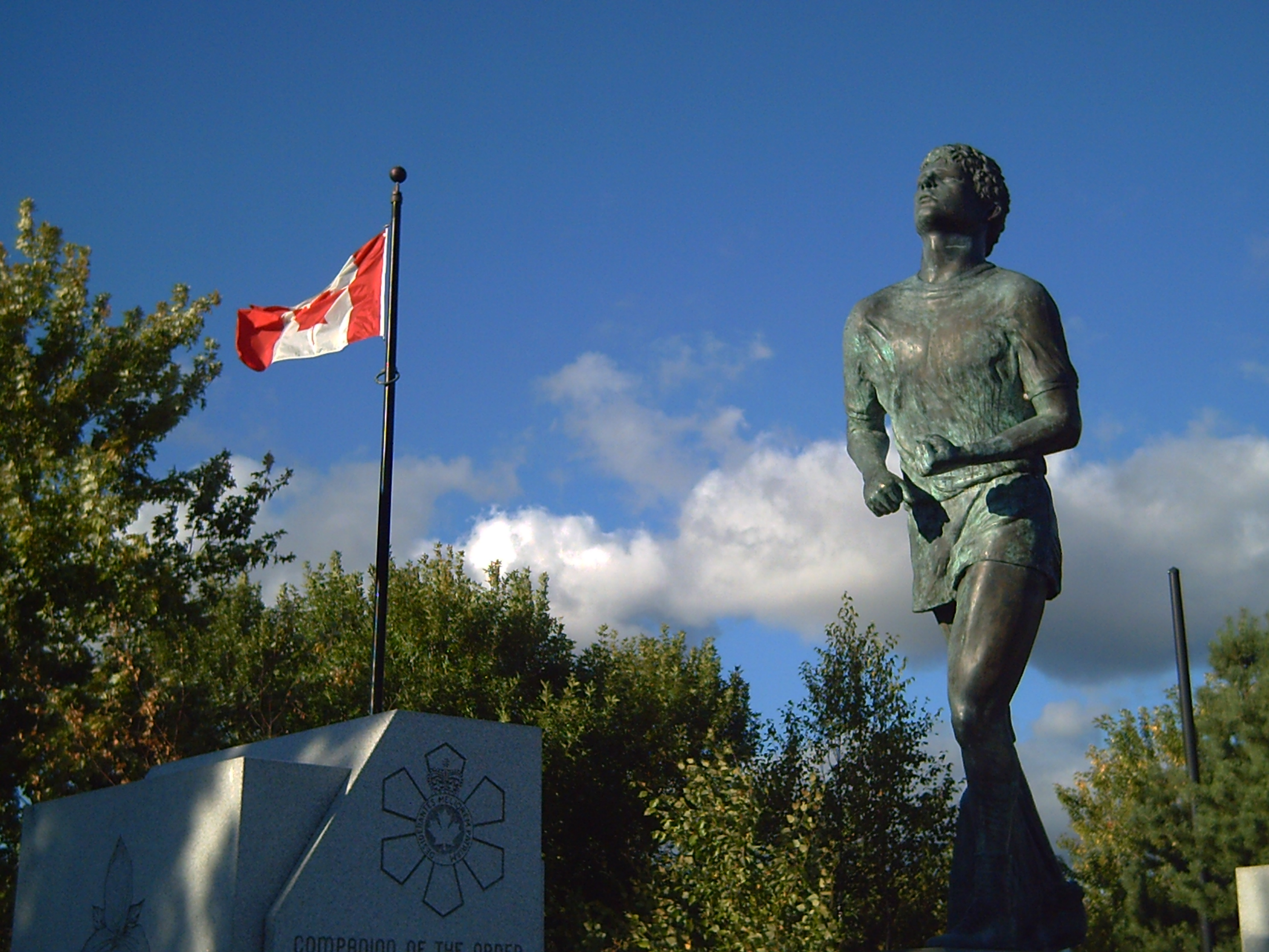 Terry Fox Monument